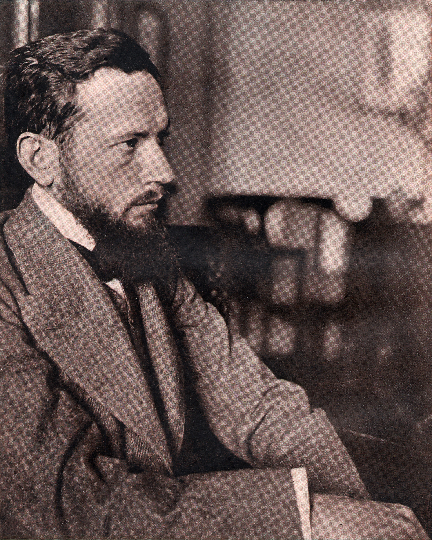 Leopold Staff, Polish poet